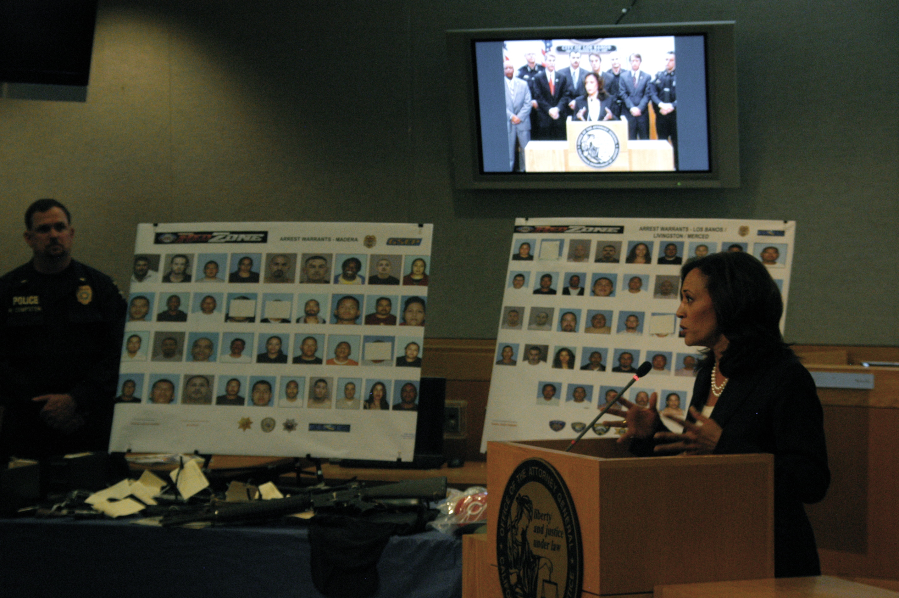 Attorney General Kamala Harris announces conclusion of Operation Red Zone, in which 16 local, state, and federal agencies arrested 101 gang members in Madera and Merced counties. Los Banos – June 8, 2011.